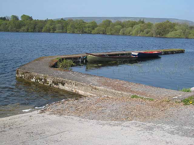 Jetty at Loughbrick Bay A bay on the eastern shore of Lough Arrow. The Bricklieve Mountains can be seen in the distance.